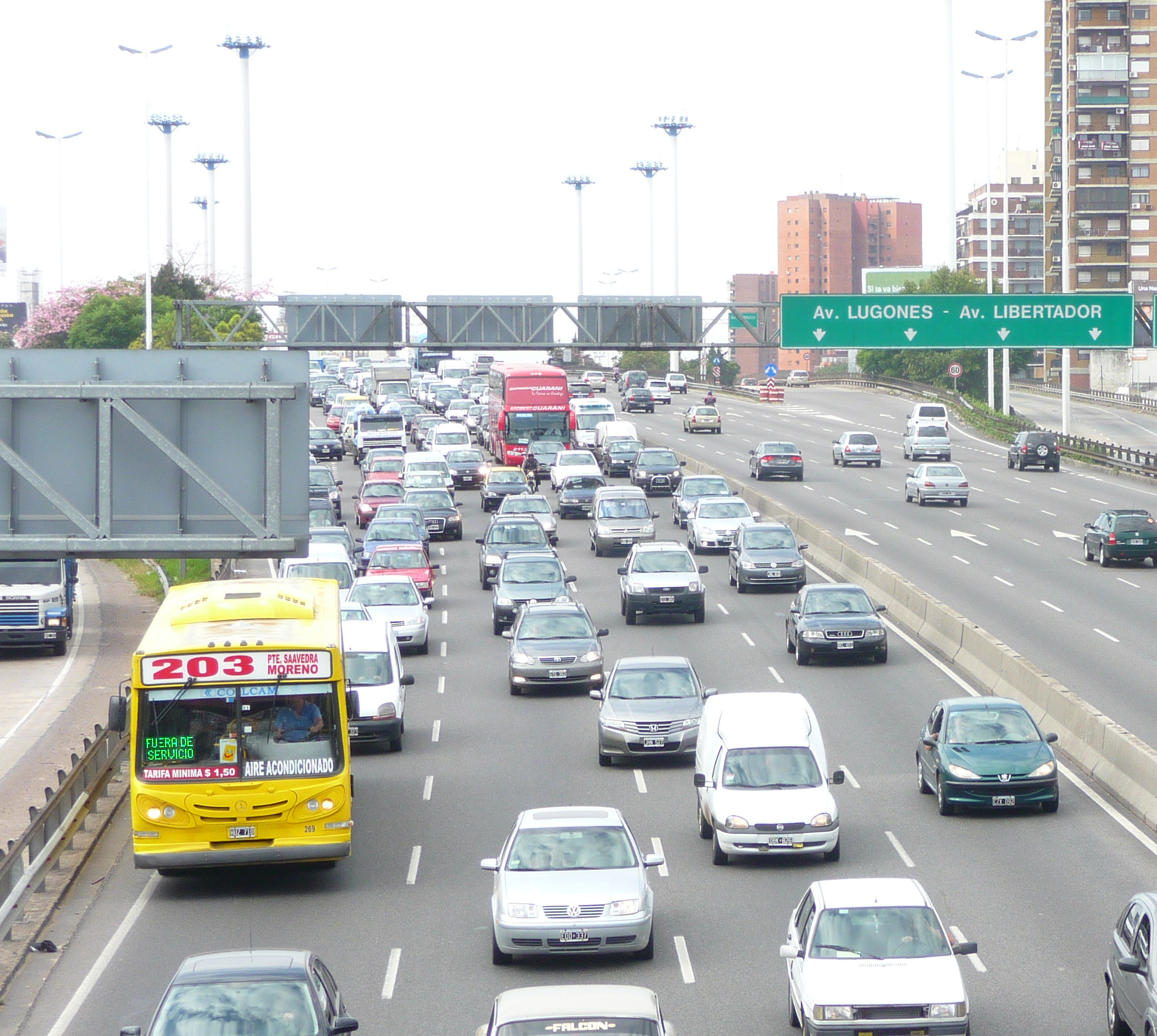 La Favorita bus (reg. HUZ 710, #269) with Mercedes-Benz chassis in Buenos Aires, Argentina. Colectivo, line 203, Azul S.A.T.A. (Rosario Bus S.A.) operator.